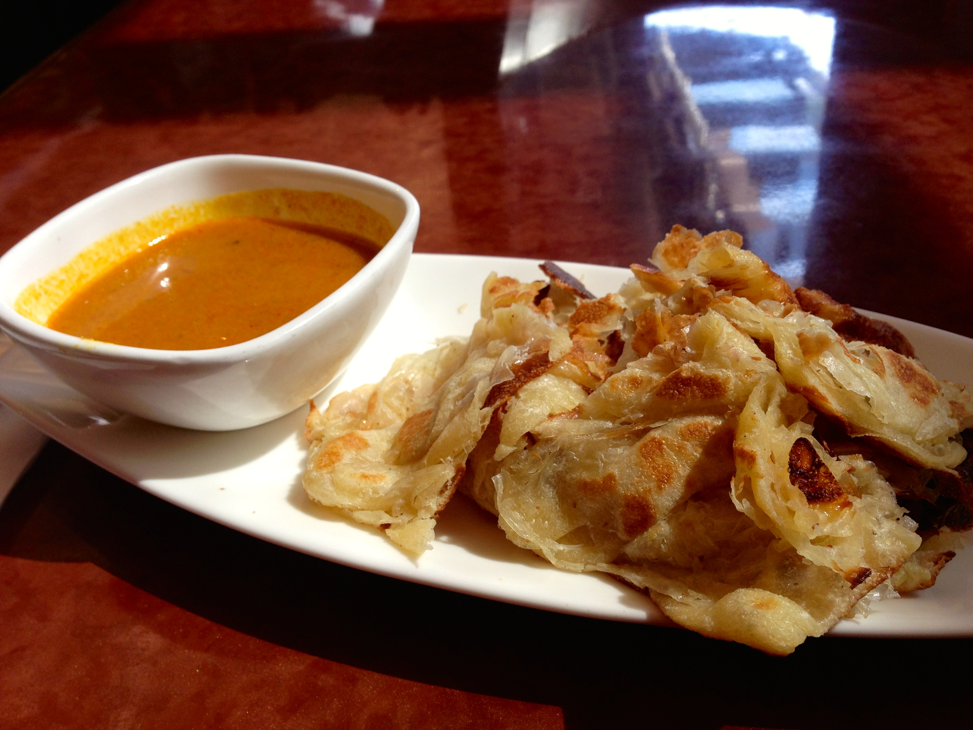 Roti Canai